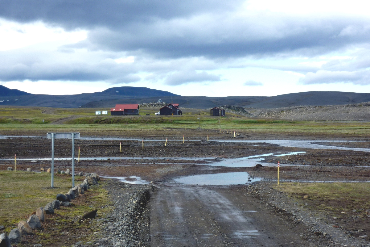 The huts in Nýidalur are located in the middle of F26, a mountain track which connects north and south Iceland through the highlands.